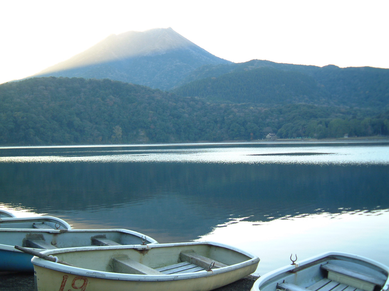 Vue de lac de Mîke (Japon). Mount Takachiho is in the background.